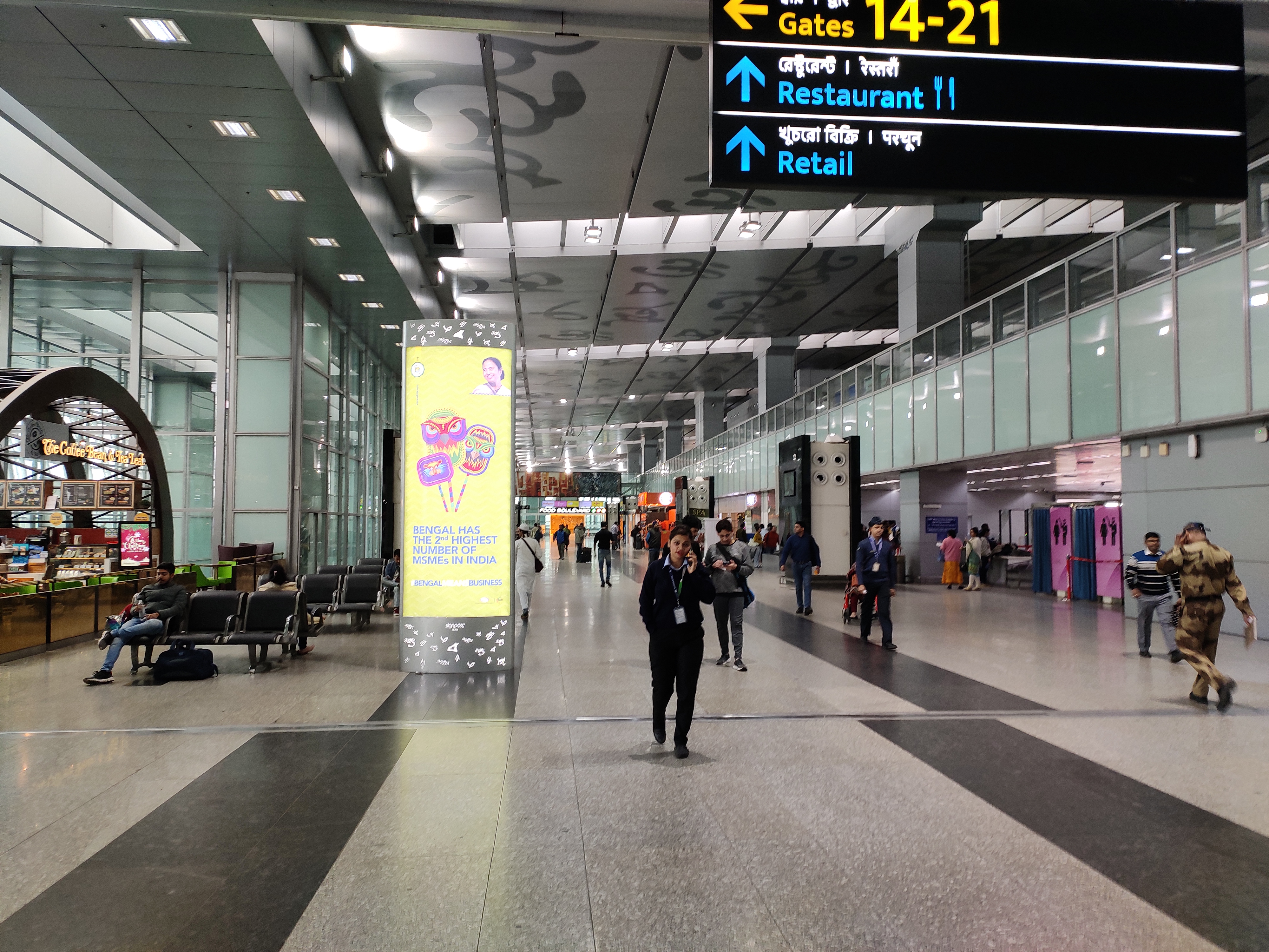 Netaji Subhash Chandra Bose International Airport, Dum Dum, Kolkata